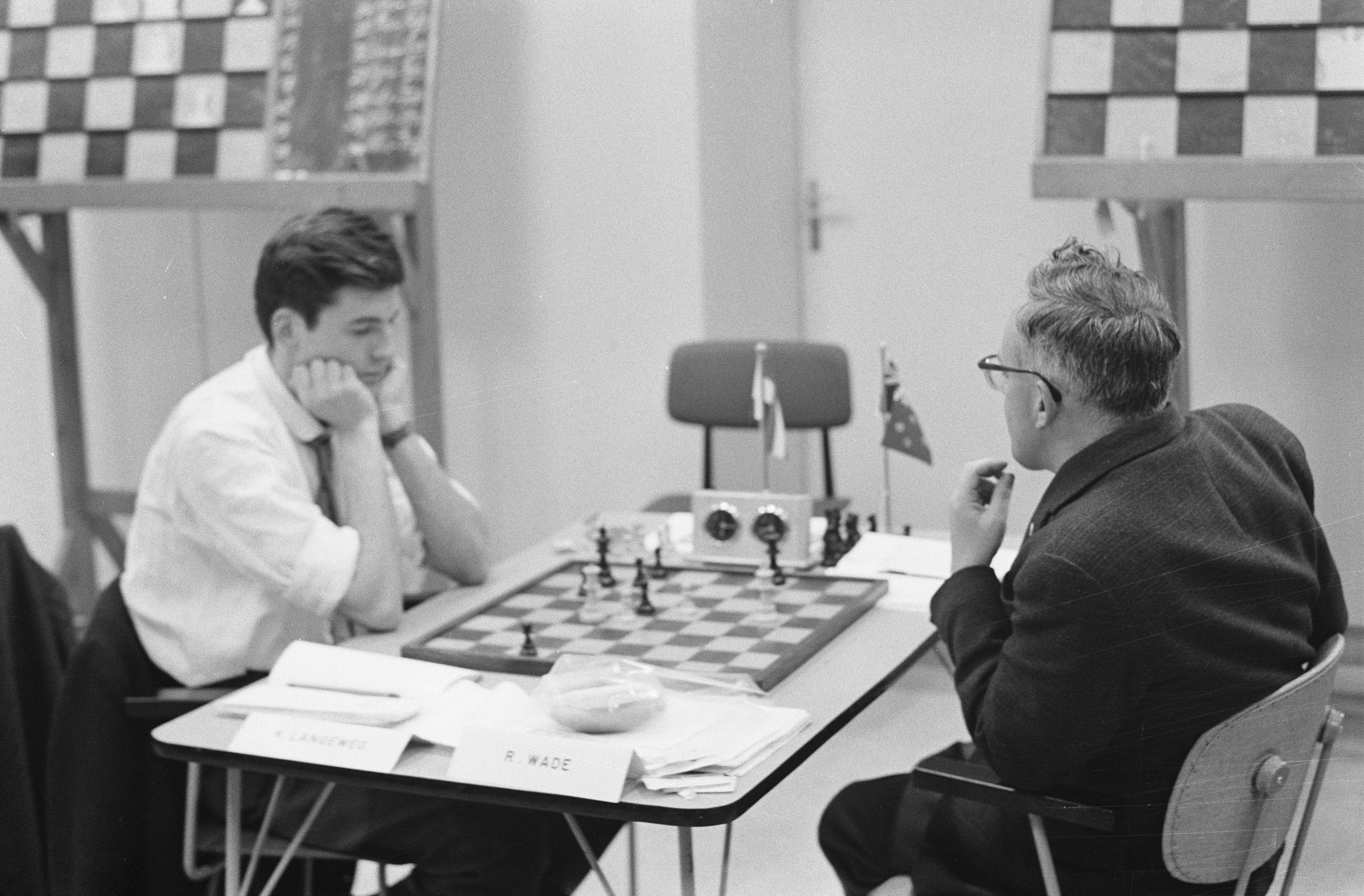 IBM Chess Tournament 1961 (the Netherlands). Kick Langeweg vs. Robert Wade